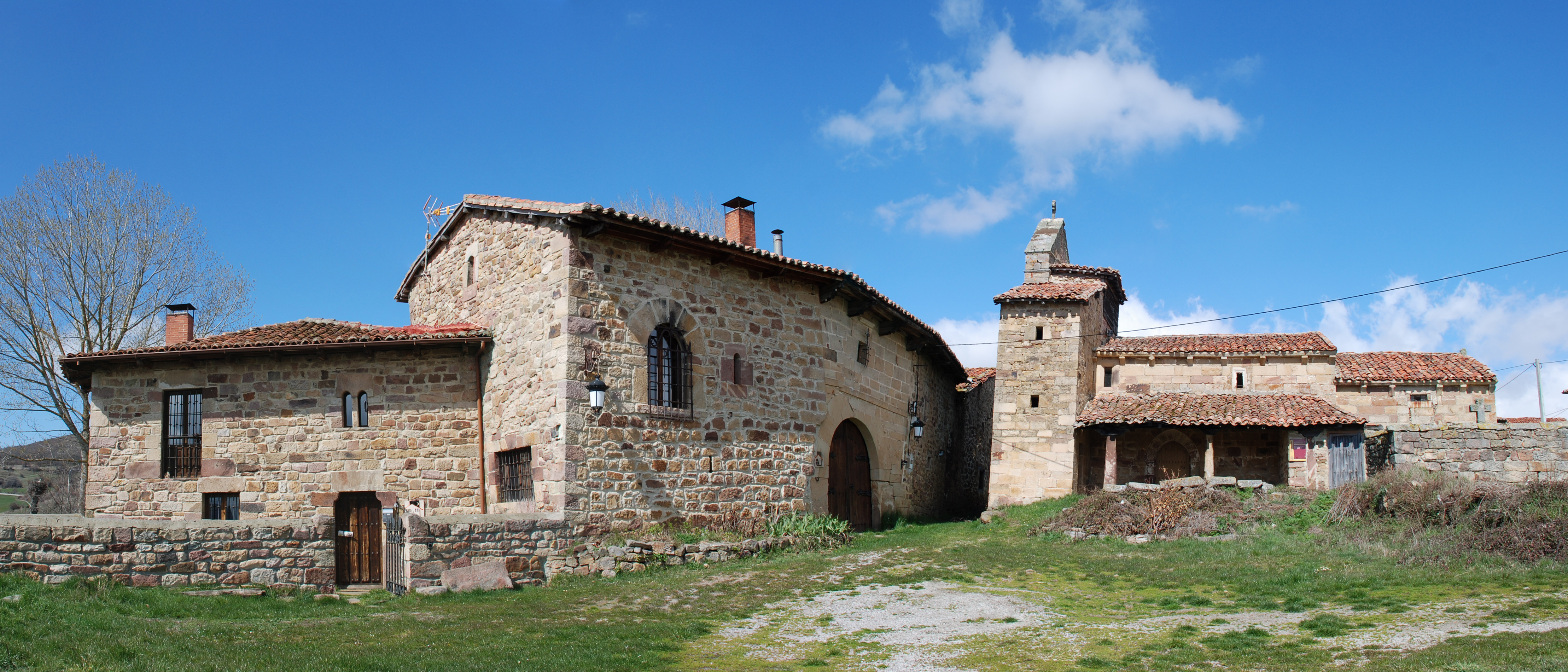 View of main square at Santa María de Nava, Barruelo de Santullán (Palencia, Castile and León)